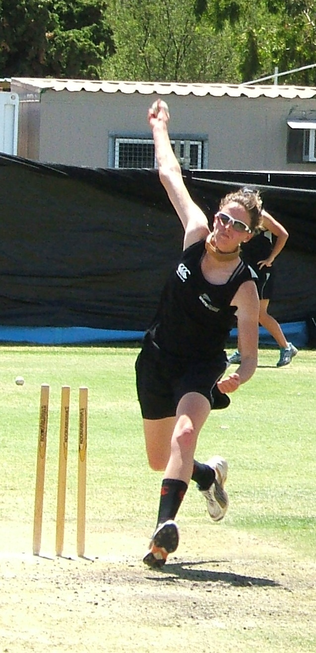 Named person engaging in named action at Adelaide Oval nets/training ground